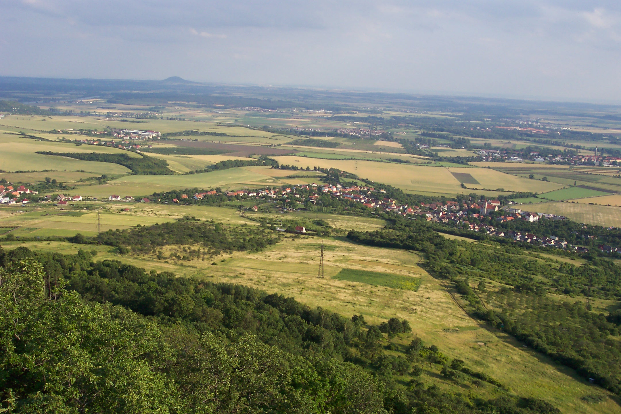 A view from the Dlouhý vrch near Litoměřice towards SSE. In the foreground village of Žitenice and small part of Pohořany (left). In the very right eastern edge of Litoměřice town with fortress town of Terezín beyond. Slightly right off the centre of the image České Kopisty. In the left villages of Podviní and Trnovany, then line of trees indicating course of the Elbe (itself obscured by terrain). On the oposite bank of the Elbe village of Počaply, then large Travčice Forest and Říp Mountain on the horizon. Next to the left corner of the forest village of Nučničky, in front of its right part village of Travčice.